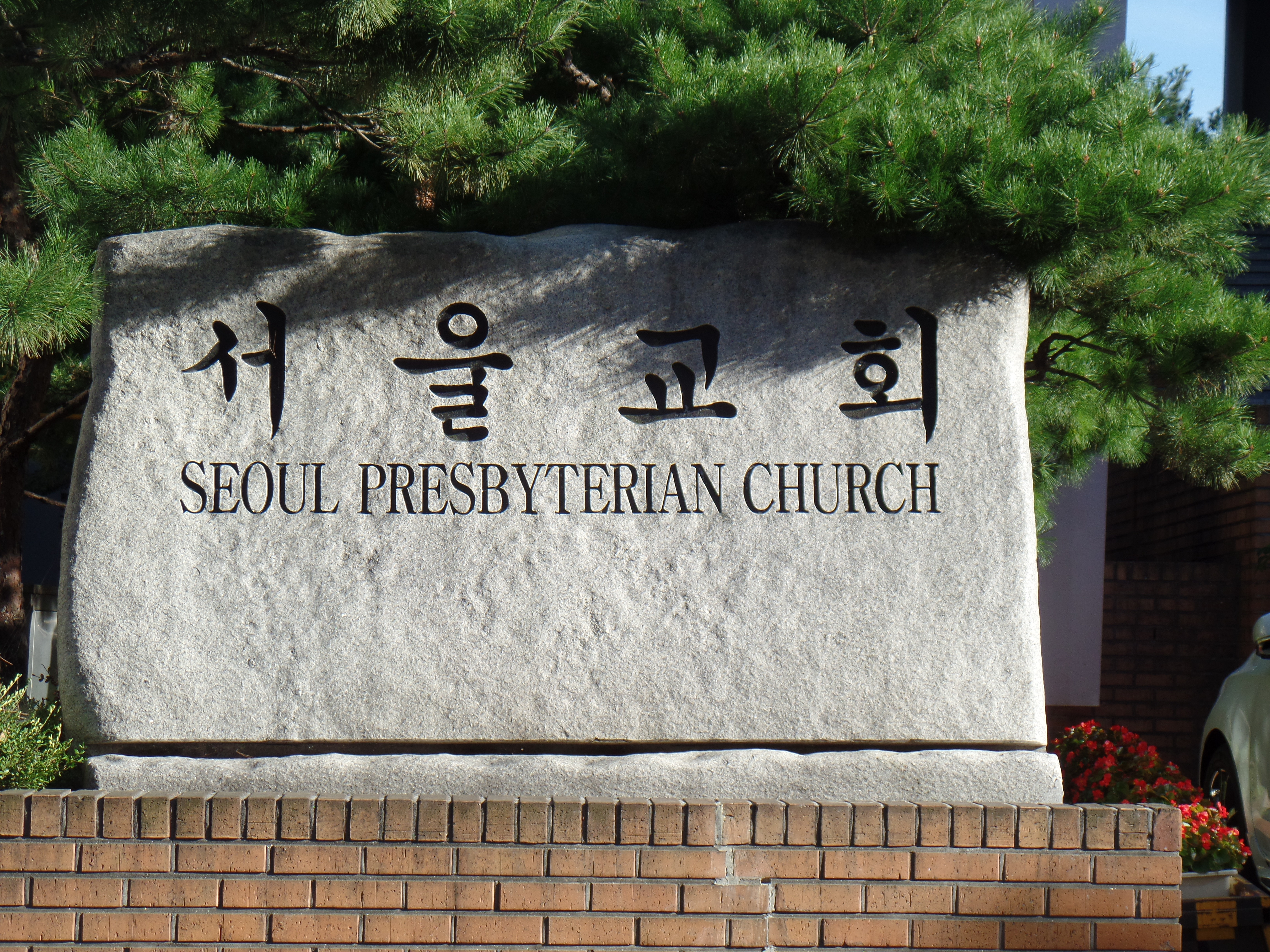 Seoul Presbyterian Church Stone sign